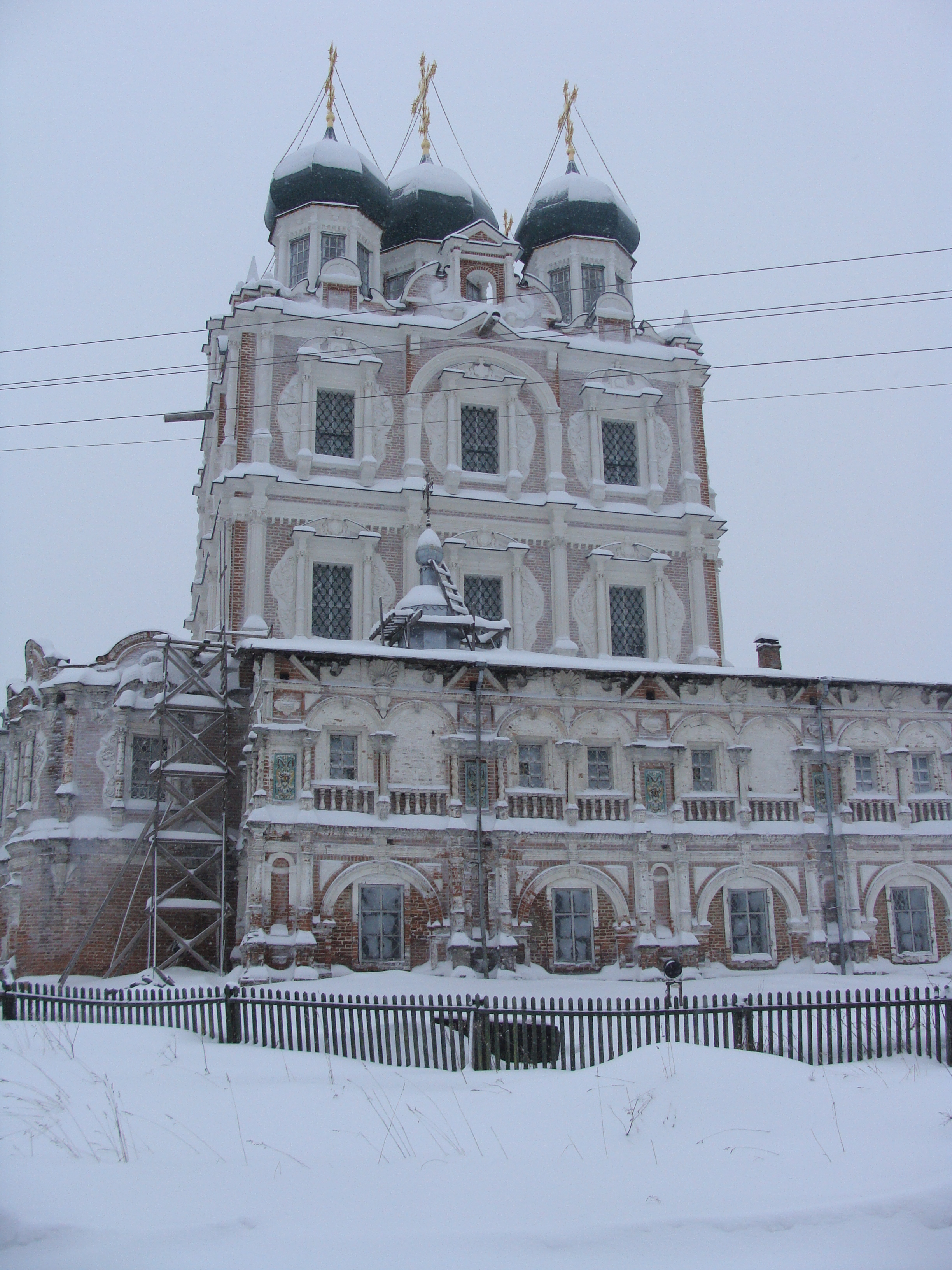 Solvychegodsk